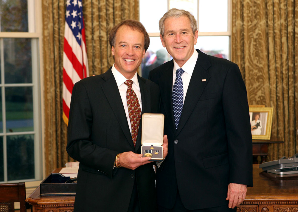 Ward Brehm receives the Presidential Citizens Medal from President Bush in an Oval Office Ceremony in December 2008.